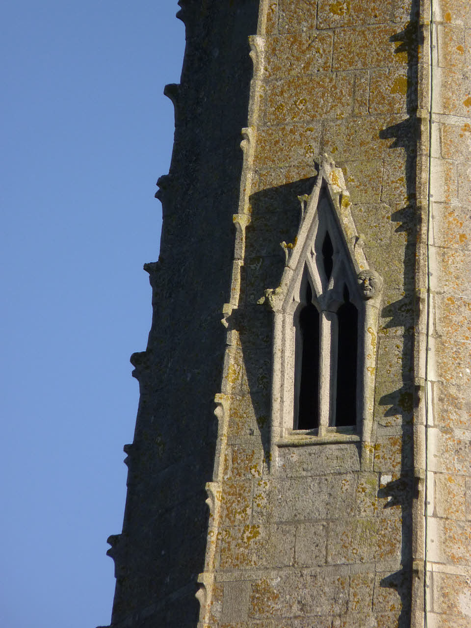 Silhouette and shadows